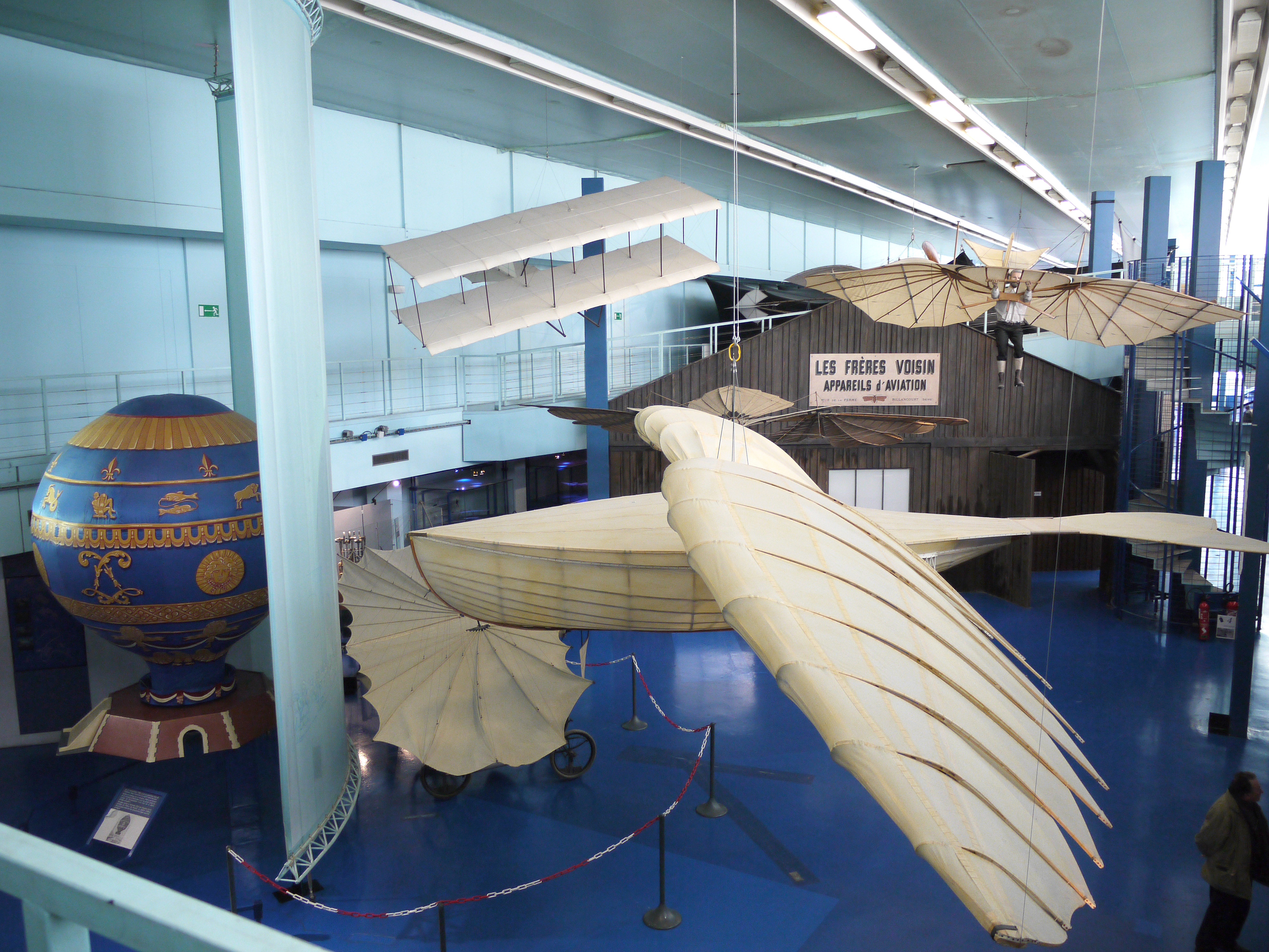 La-Barque-ailee fromJean-Marie Le Bris (1856), Museum of Air and Space Paris, Le Bourget (France)